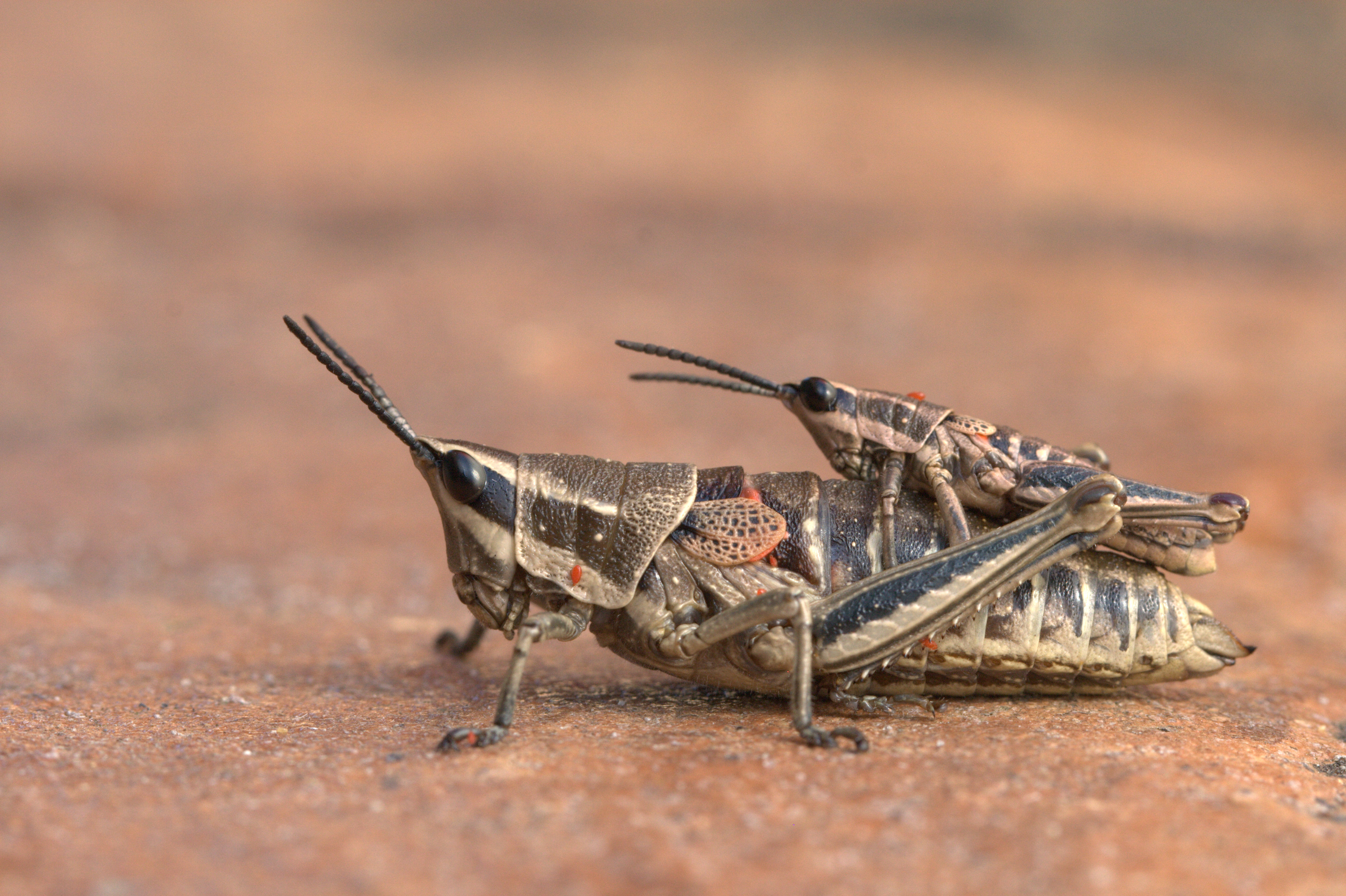 Fauna in Kioloa, New South Wales, Australia.